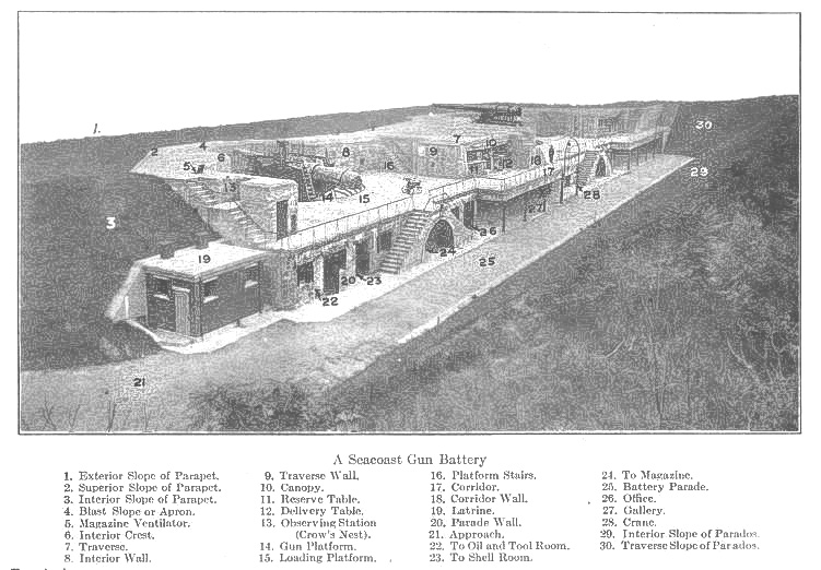 Typical US Army Coast Artillery Corps two-gun battery for disappearing guns, probably built circa 1895-1905.